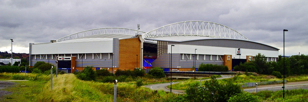 The newly-branded Robin Park stadium, as seen from the bridge to the rear.